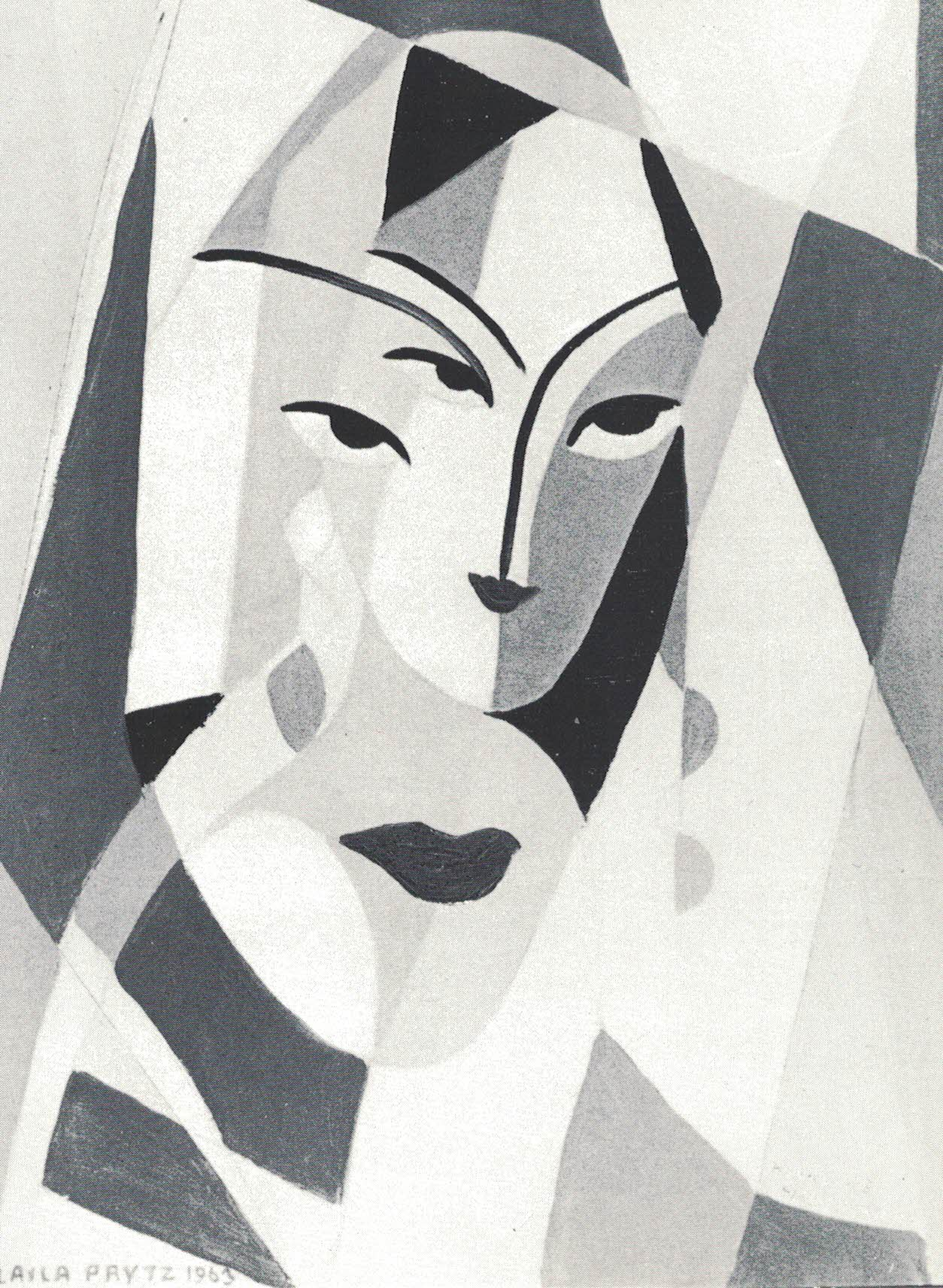 Laila Prytz portrait of singer Birgit Nilsson